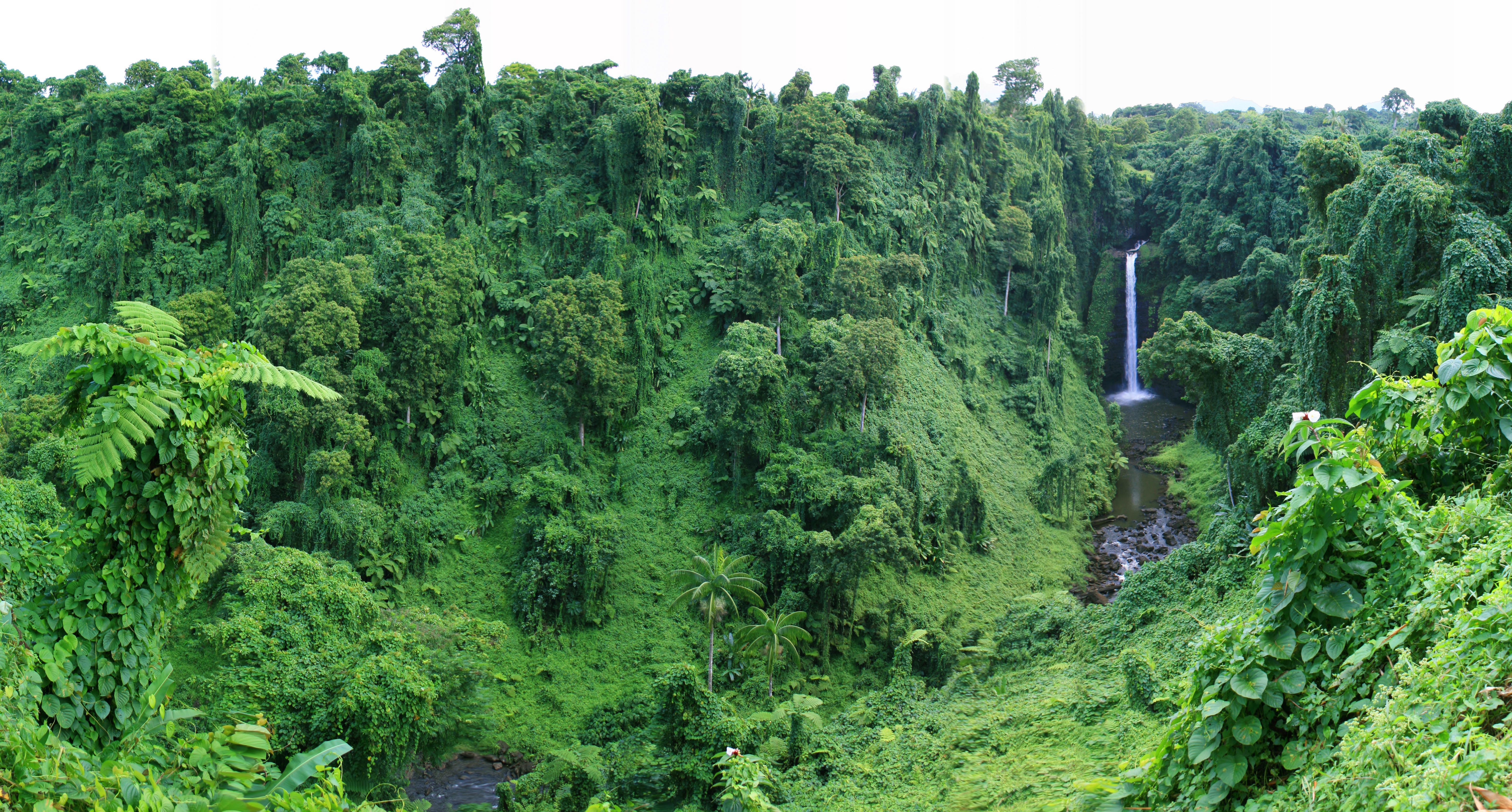 Sopo'aga waterfall at the east end of Upolu island in Samoa. Panorama of the valley